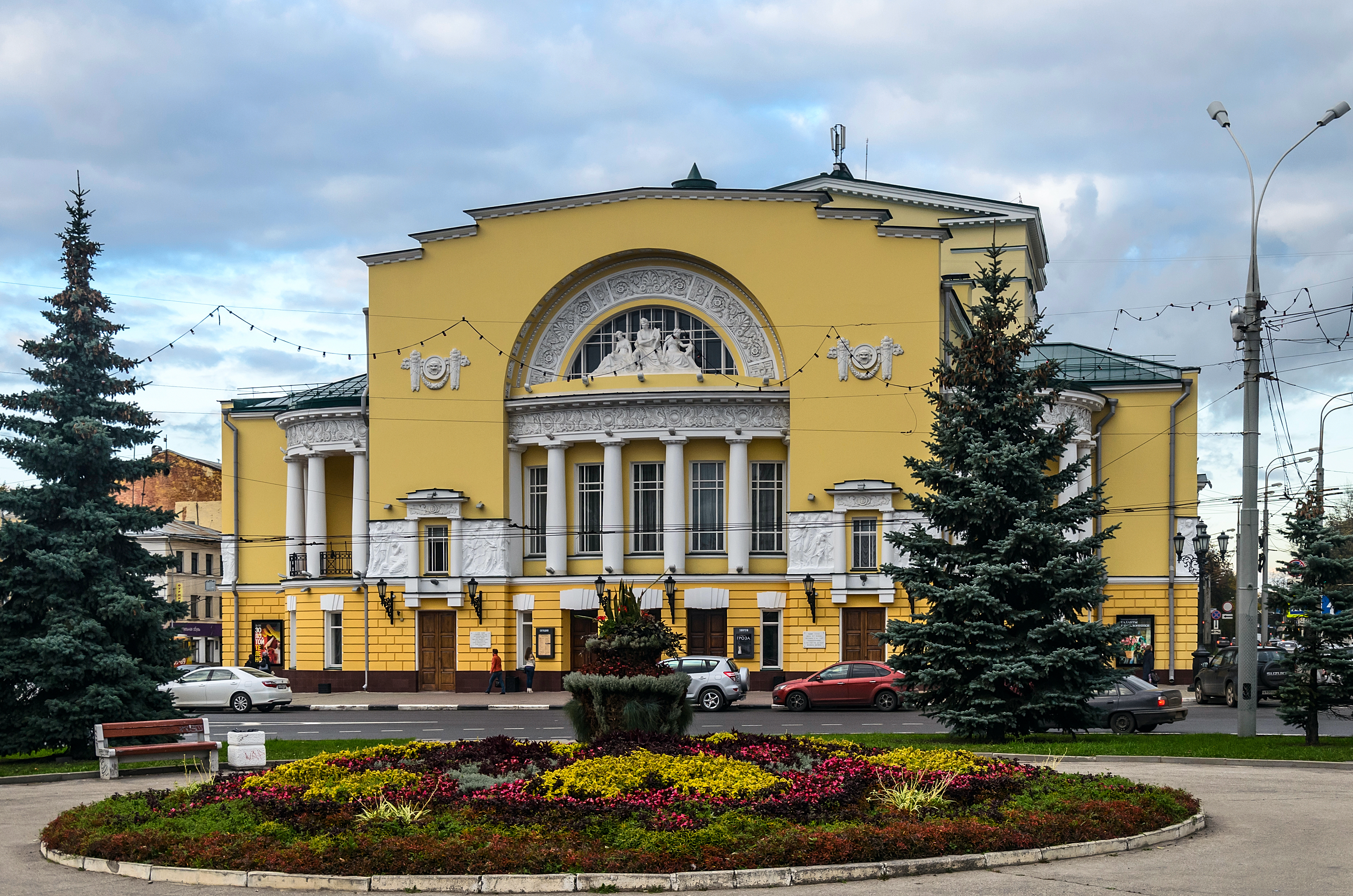 Volkov Drama Theater in Yaroslavl